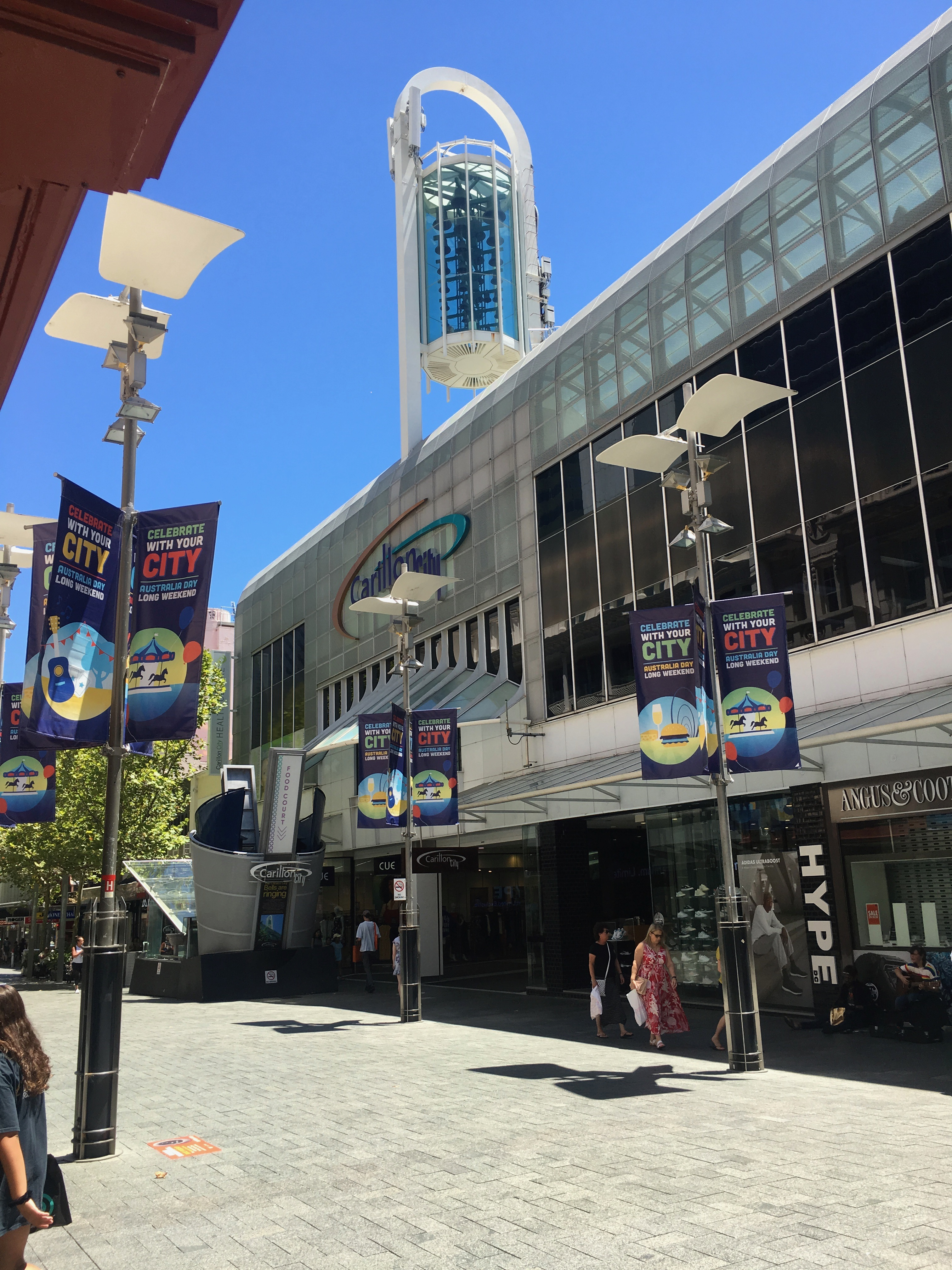 Carillon bell tower above the city shopping centre from Hay Street, Perth, Western Australia